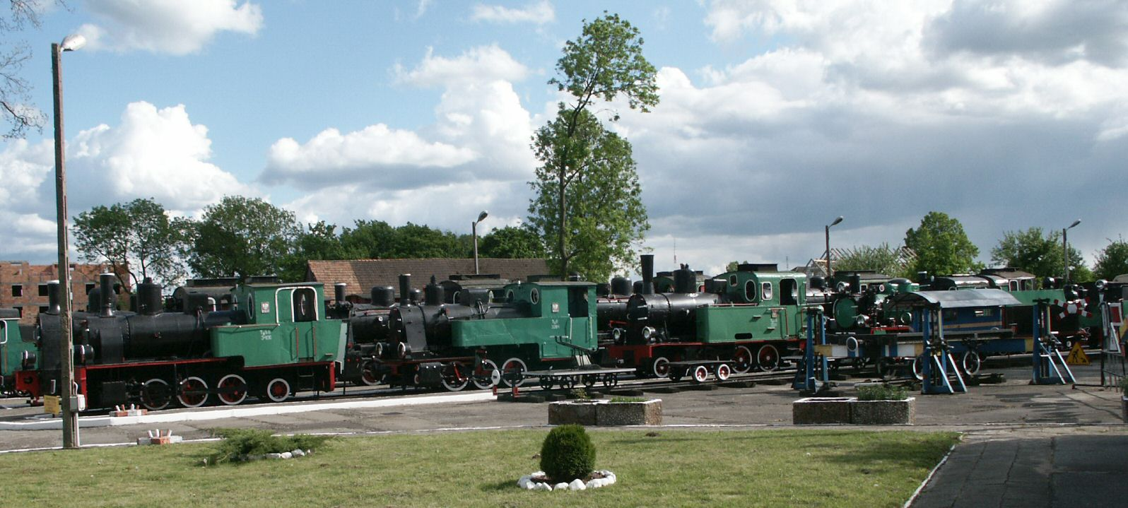 Exhibition of Pommeranian Narrow Gauge Railways in Gryfice, Poland (division of Railways Museum in Warsaw)